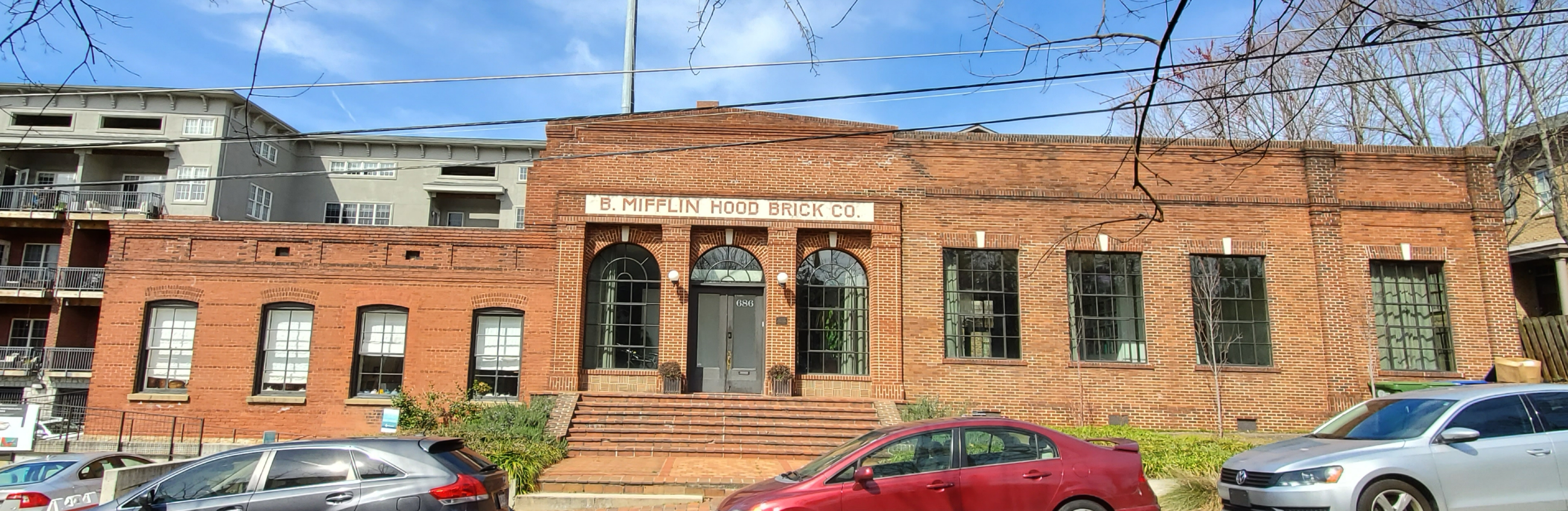 B. Mifflin Hood Brick Company Building in midtown Atlanta, Georgia.